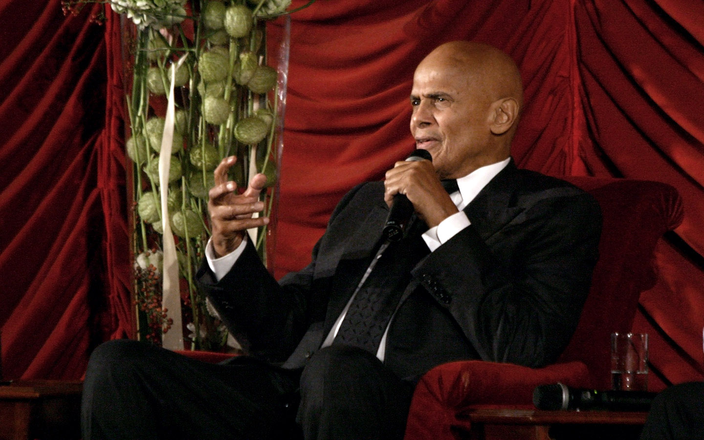 Harry Belafonte at the Vienna International Film Festival 2011.